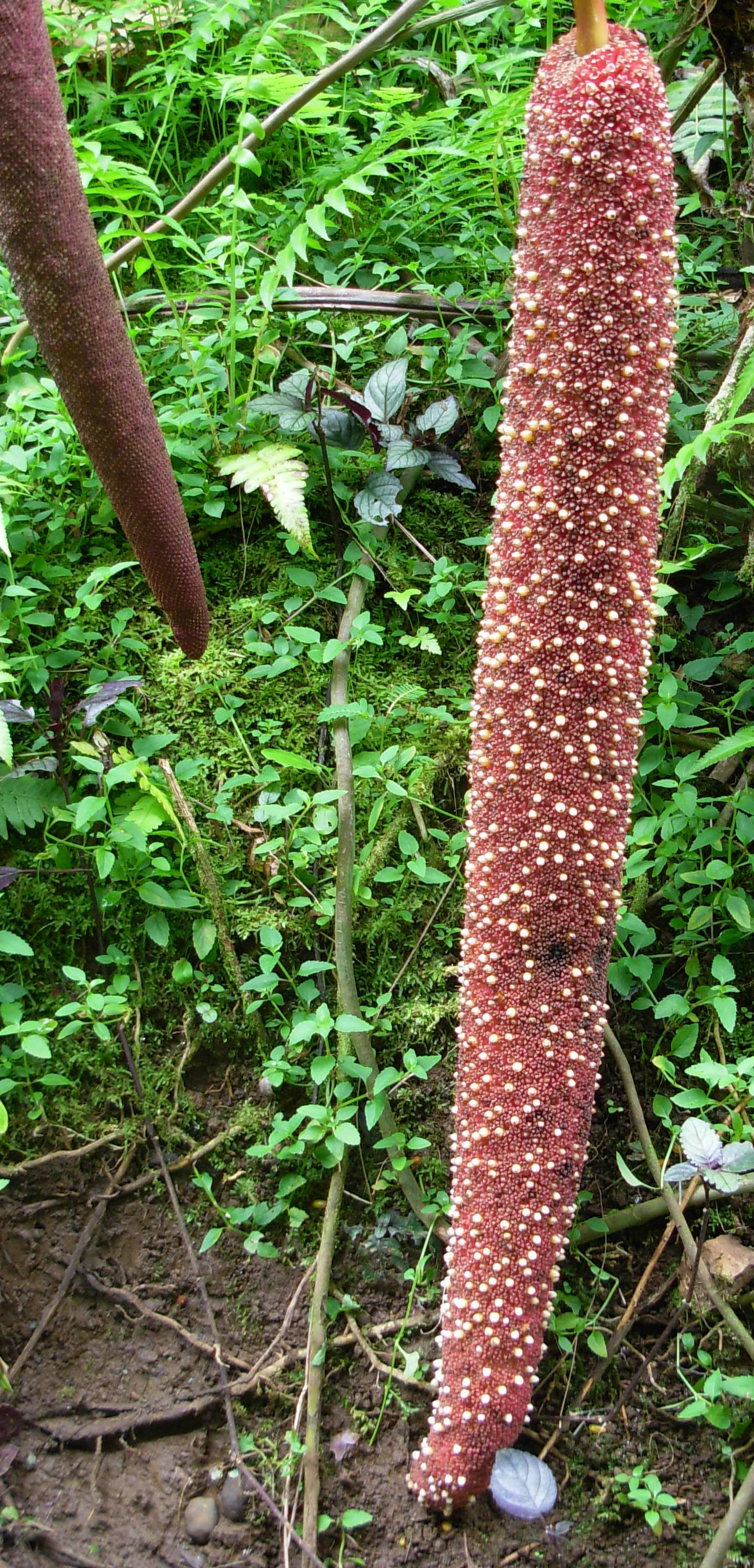 Anthurium cupulispathum Spadix Anthurium Origin: South America Kingdom: Plantae Division: Magnoliophyta Class: Liliopsida Order: Alismatales Family: Araceae Genus: Anthurium 1041308 519